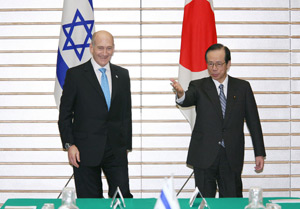 Ehud Olmert, Prime Minister, met Yasuo Fukuda, Prime Minister, at the Prime Minister's Official Residence in Chiyoda Ward, Tōkyō Metropolis on February 27, 2008.